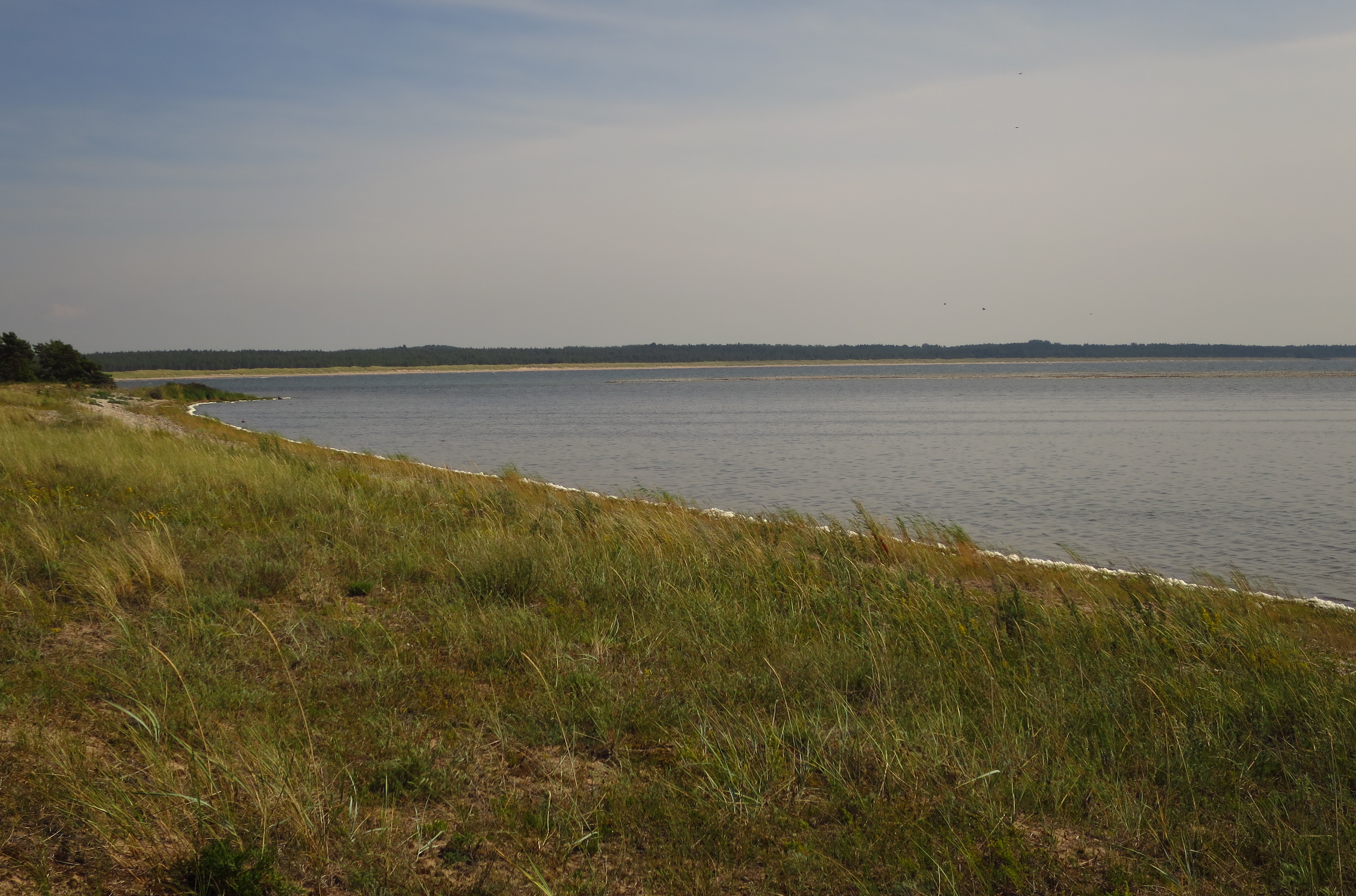 Haagi lõugas Vilsandi rahvuspargis